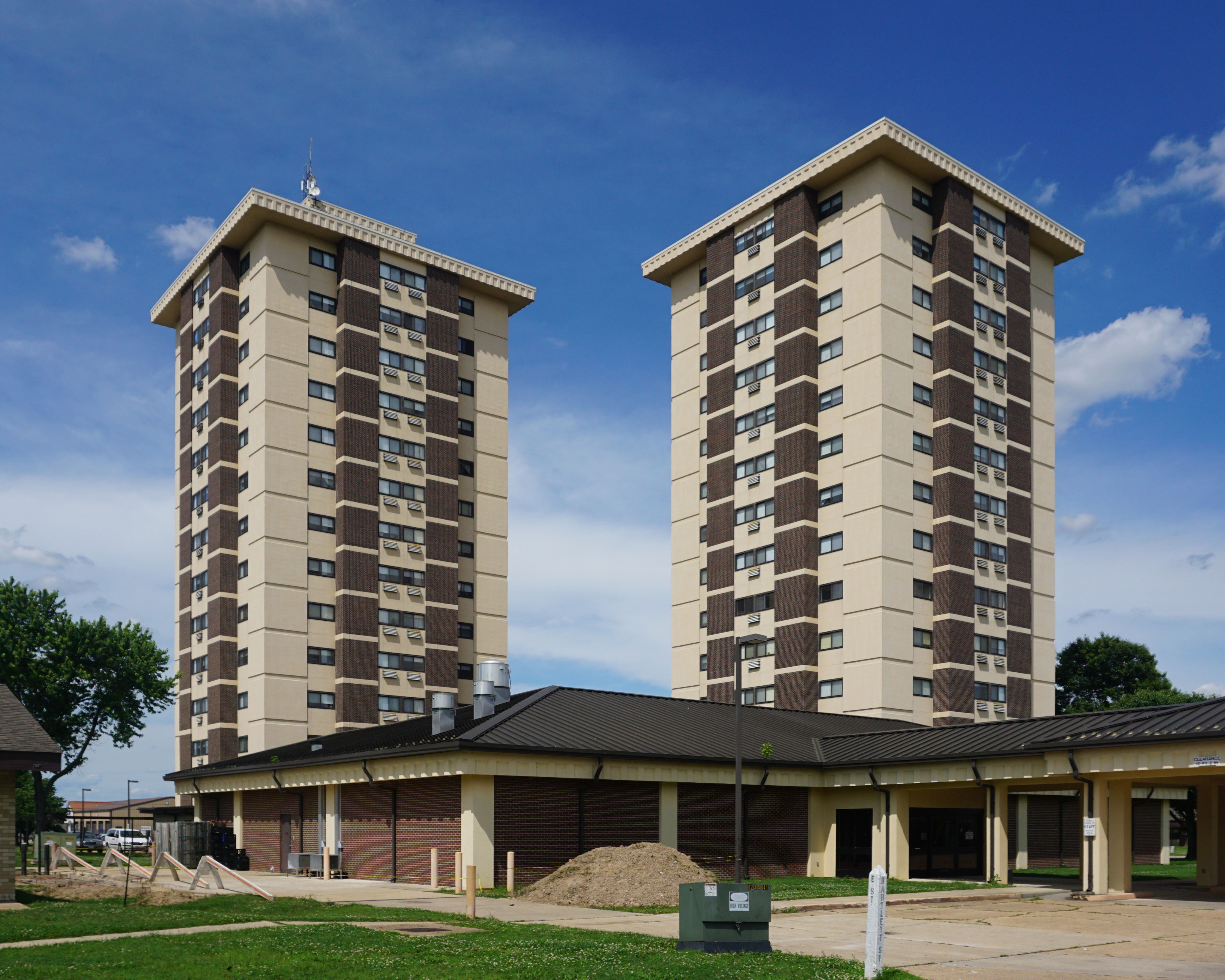 Wilson and Hillcrest Towers in Poplar Bluff, Missouri